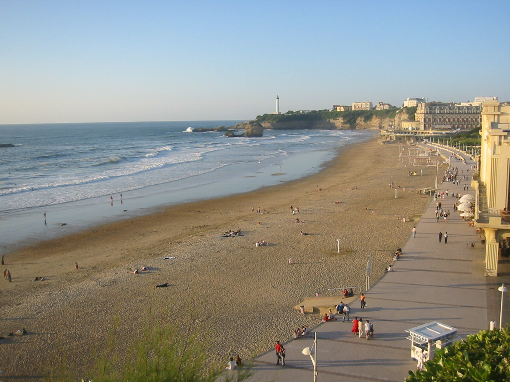 La Grande Plage, a beach in Biarritz, France, in the evening. Source: Jaakko Sakari Reinikainen (ulayiti)